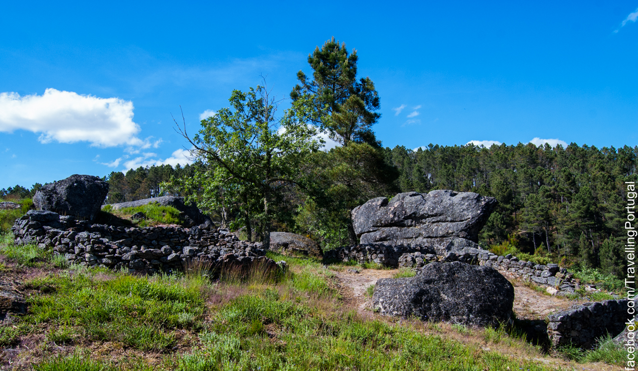 boticas, tras os montes, terras de barroso, portugal, norte